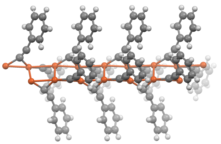 New perspective of CuC2Ph with depth cueing.